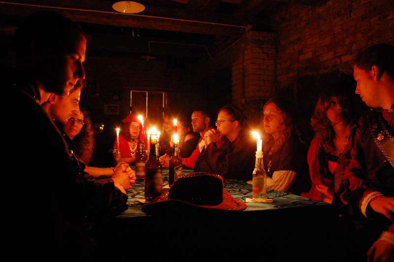 Hardkon X - one of the very touching and moody moments during one of the night LARPs